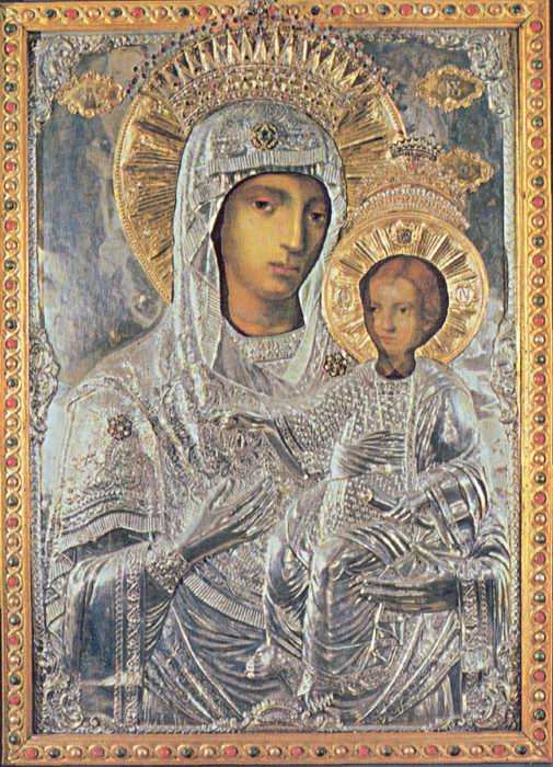 The Icon of Theotokos "Acheiropoietos" (i.e. not made by human hands). Romanian Skete Prodromos, Mount Athos. Feast day: 12 July.